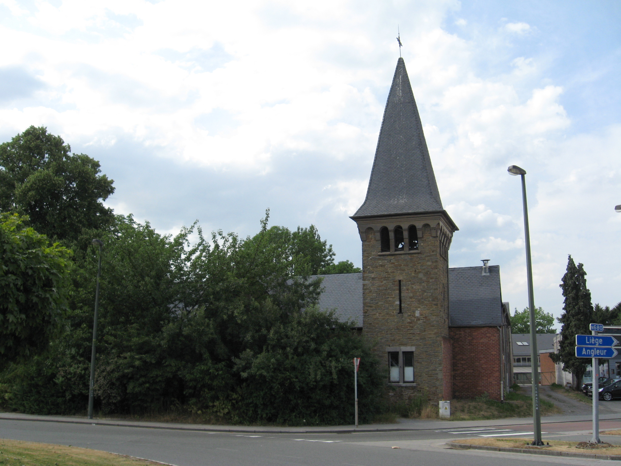 Church of Saint Hubertus in Sart-Tilman, Angleur, Liège, Liège, Belgium